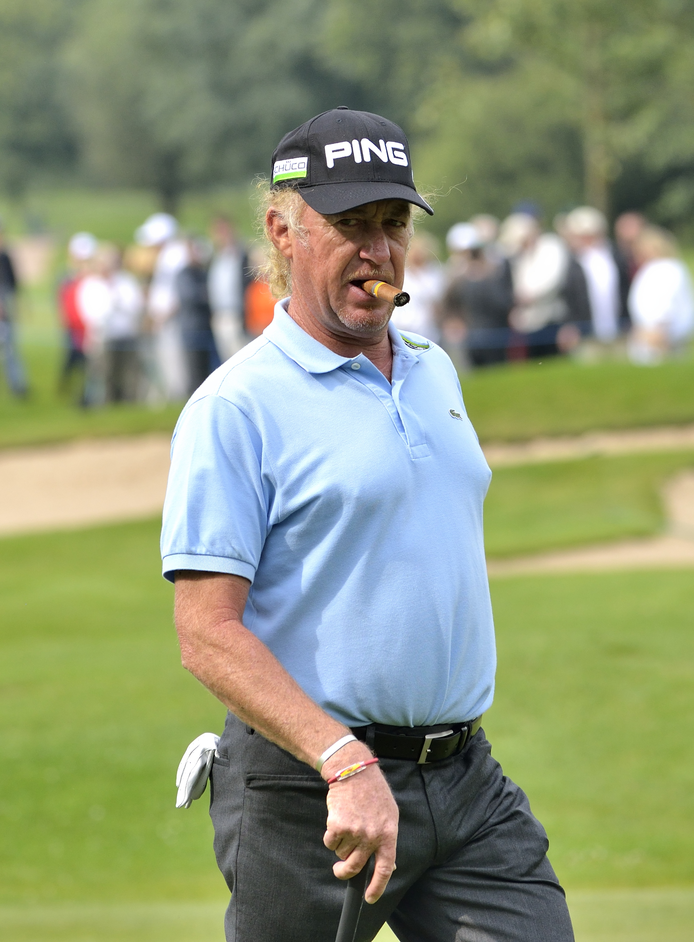 Miguel Angel Jimenez at the Schüco Open 2012, Golfclub Gut Kaden